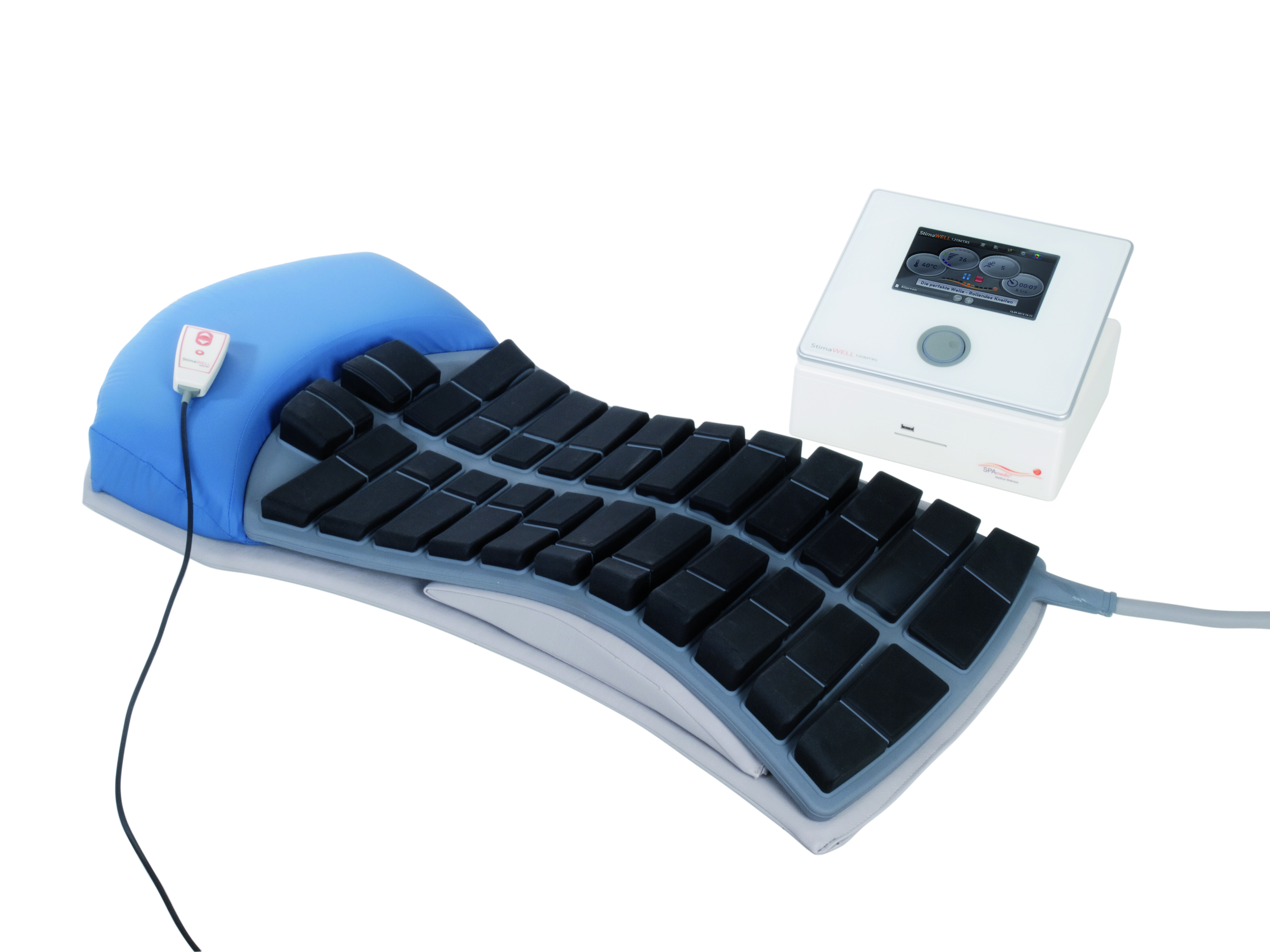 Electrotherapie Stimawell moyenne frequence avec modulation BF